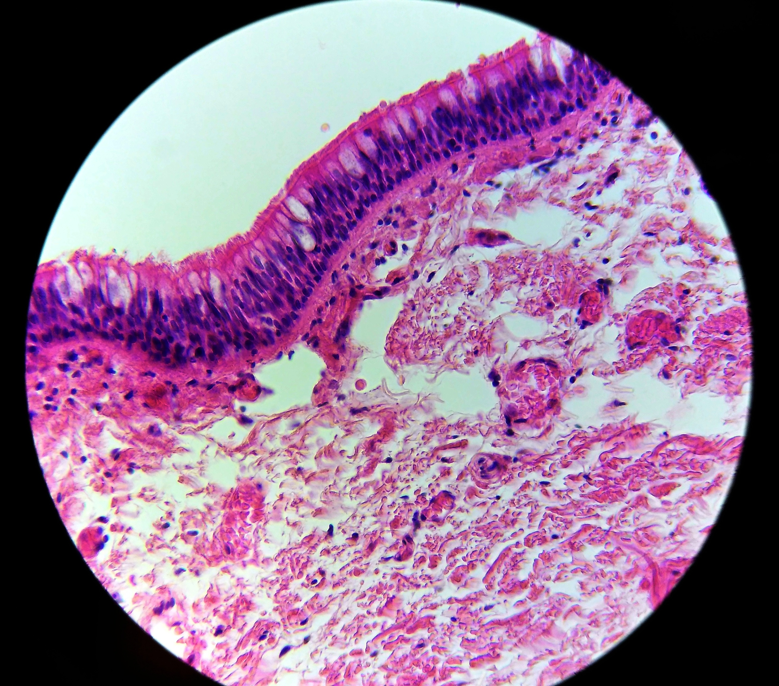 Respiratory epithelium (HE)